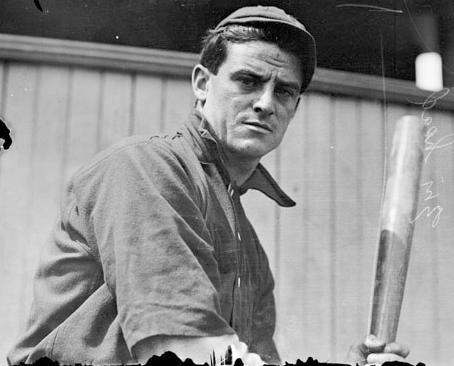 Mike Donlin of the Cincinnati Reds at the West Side Grounds in 1903.